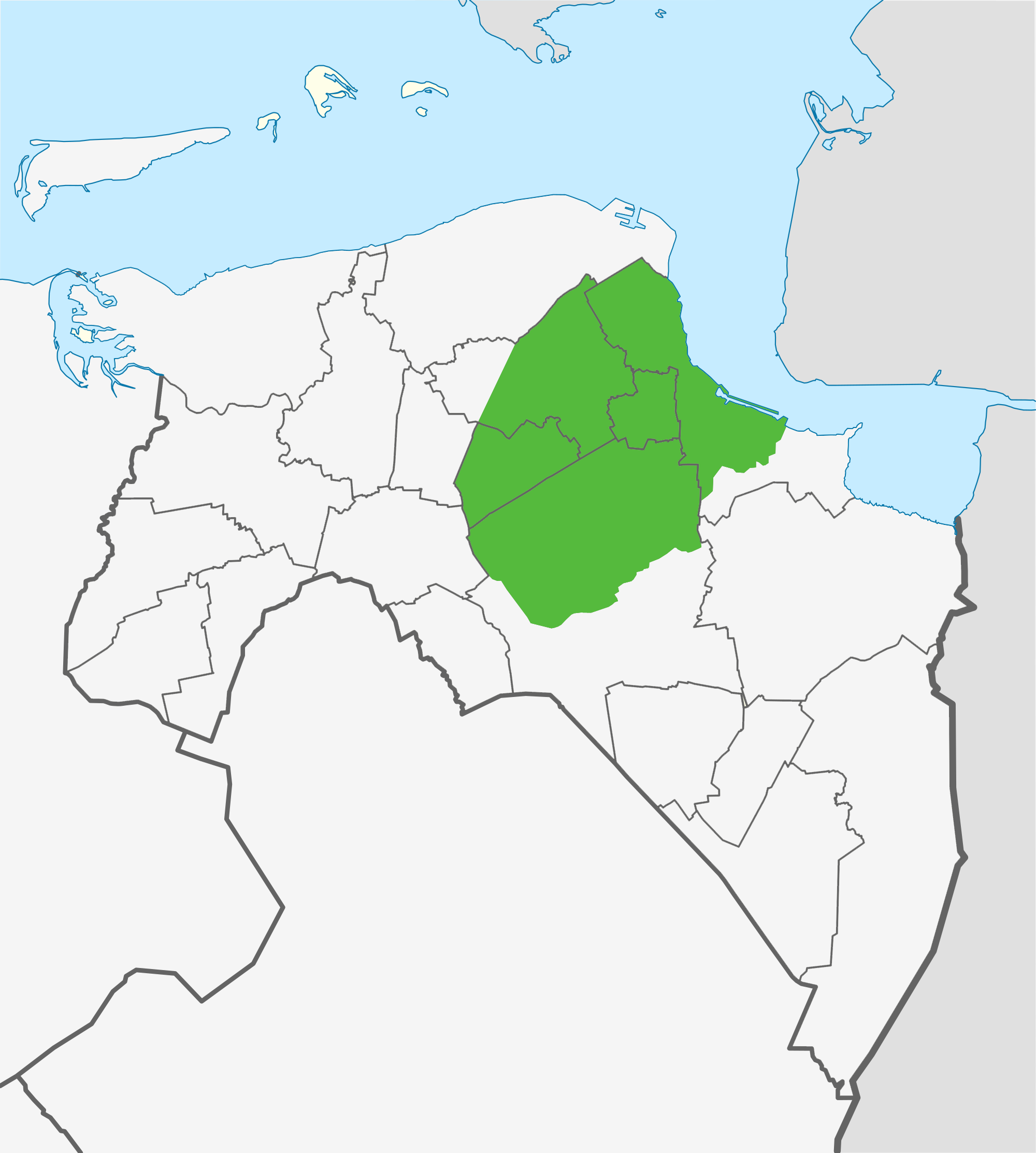 Location of Fivelingo in the province of Groningen Based on File:Netherlands Groningen location map.svg